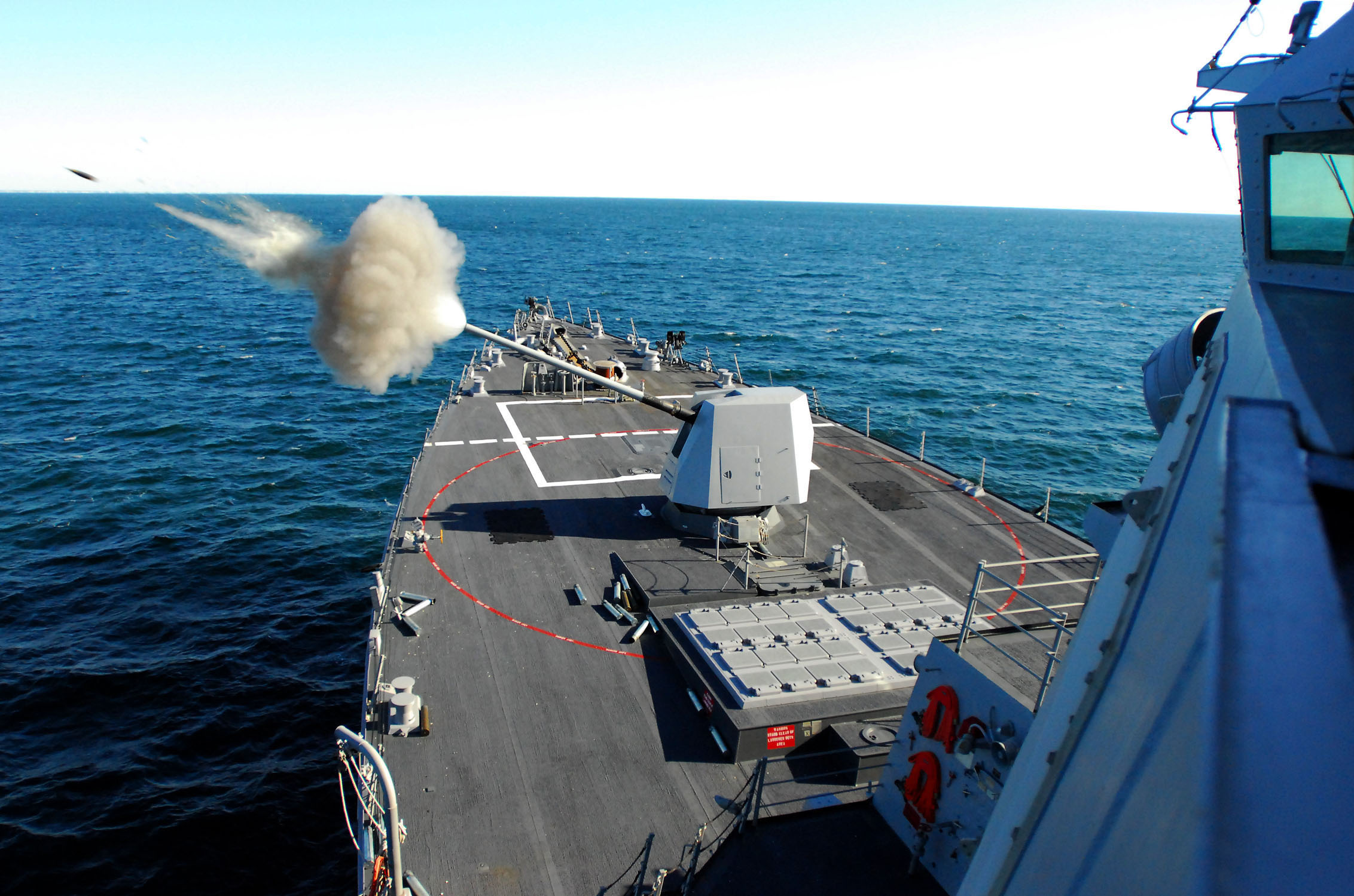 Atlantic Ocean (Jan. 9 2007) - Guided missile destroyer USS Forrest Sherman (DDG 98) test fires its five-inch gun on the bow of the ship during training. The Sherman is currently conducting training exercises in the Atlantic Ocean. U.S. Navy photo by Mass Communication Specialist Seaman Apprentice Joshua Adam Nuzzo (RELEASED)